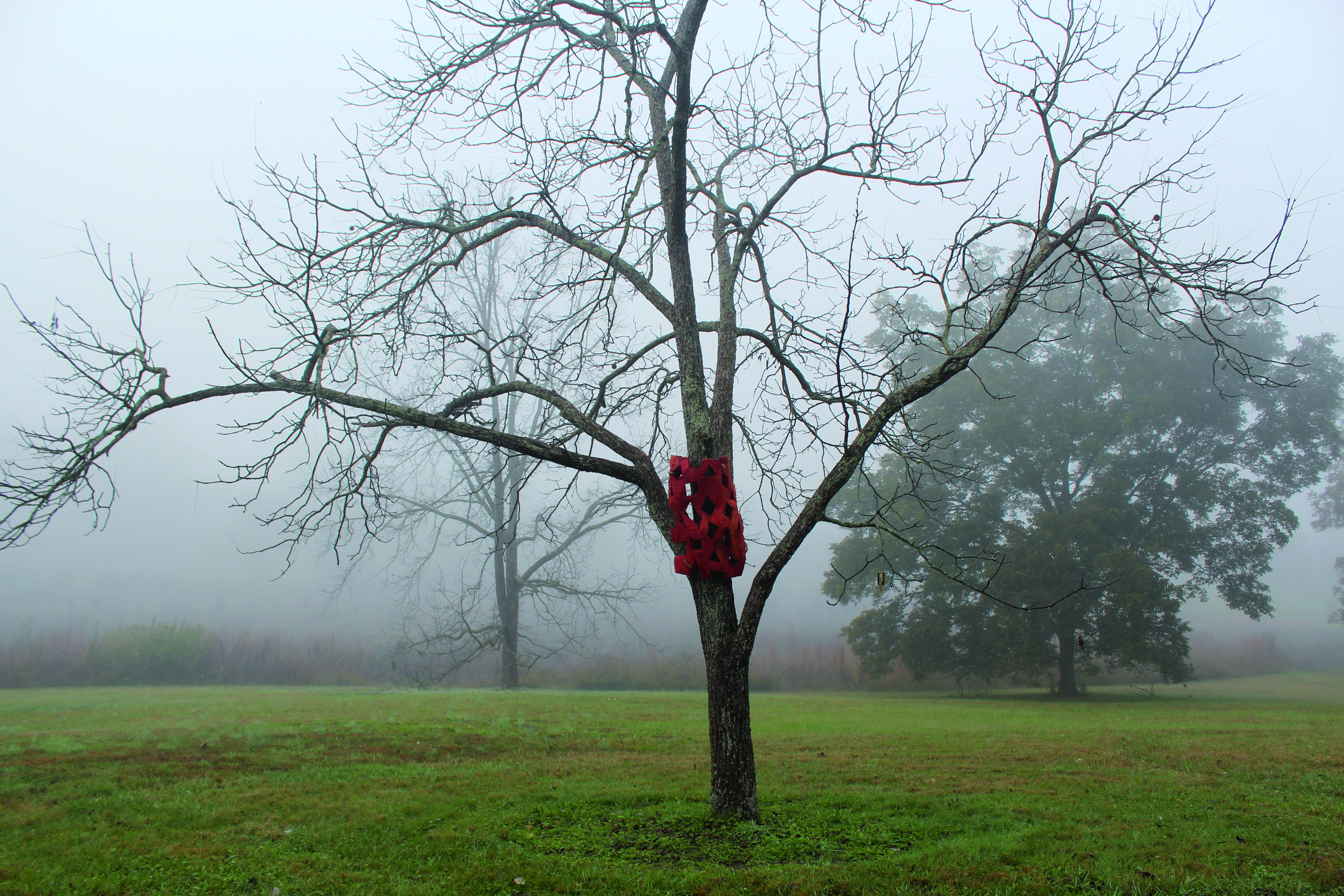 Heike Endemann. Crawling, Red. Installed at Bernheim Arboretum, Clermont, Kentucky, USA.